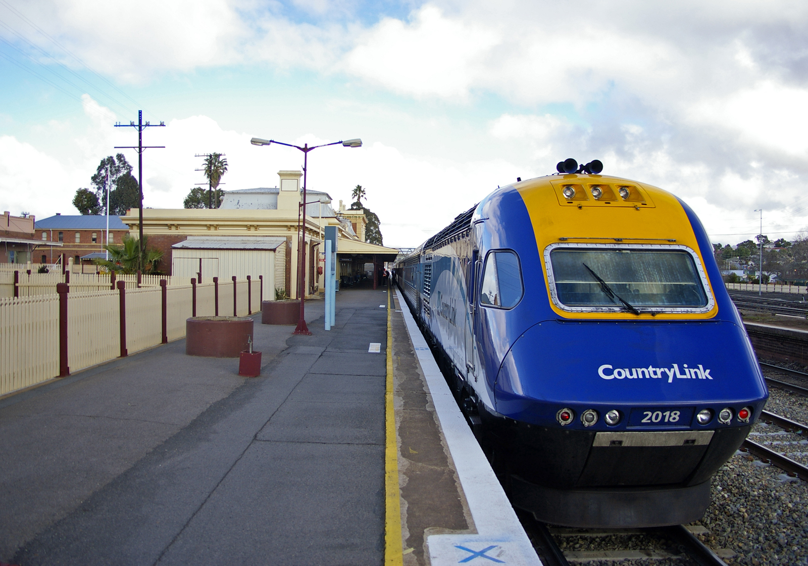 CountryLink XPT 2018 at Junee Railway Station.